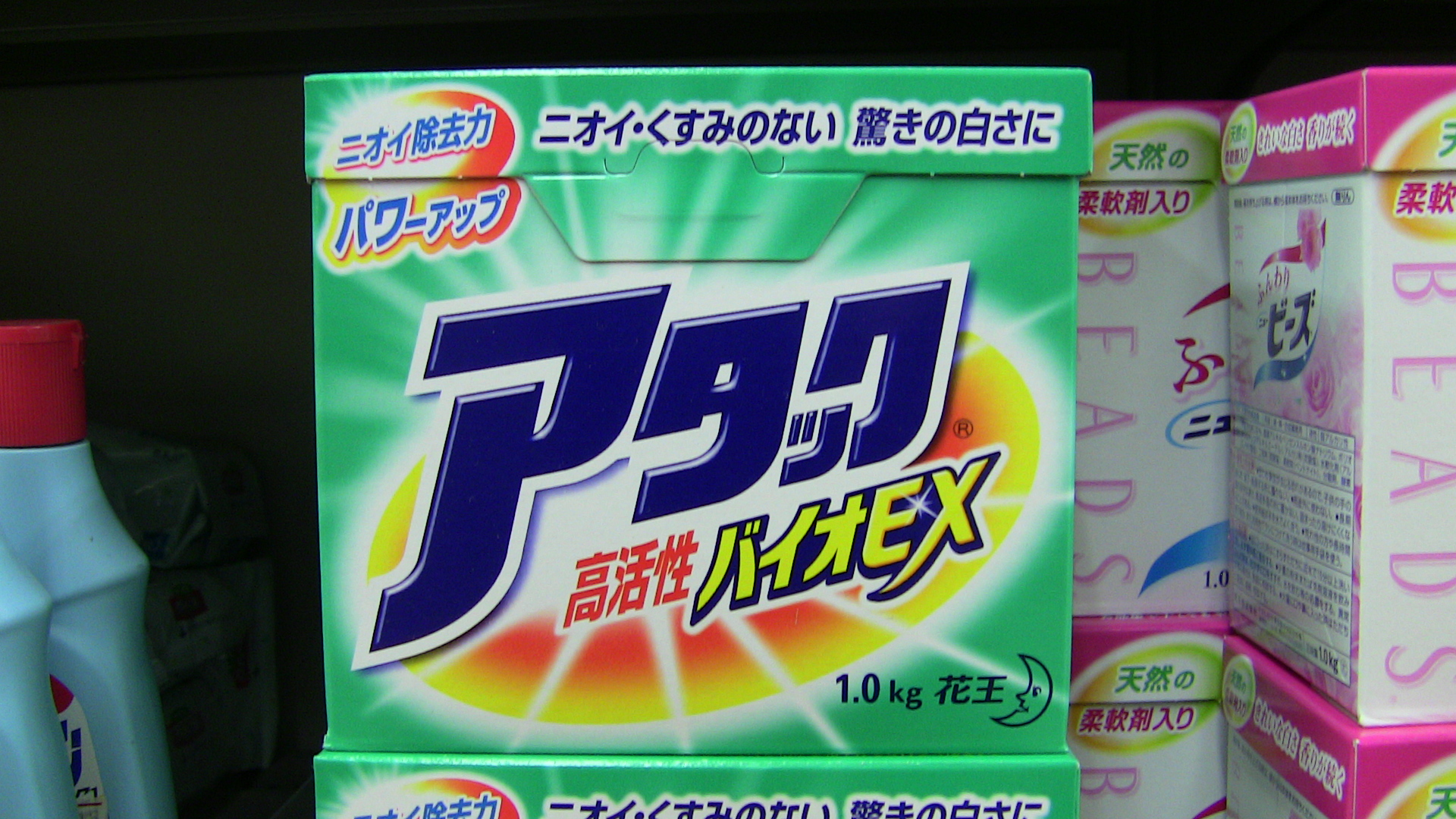 Kao Corporation attack